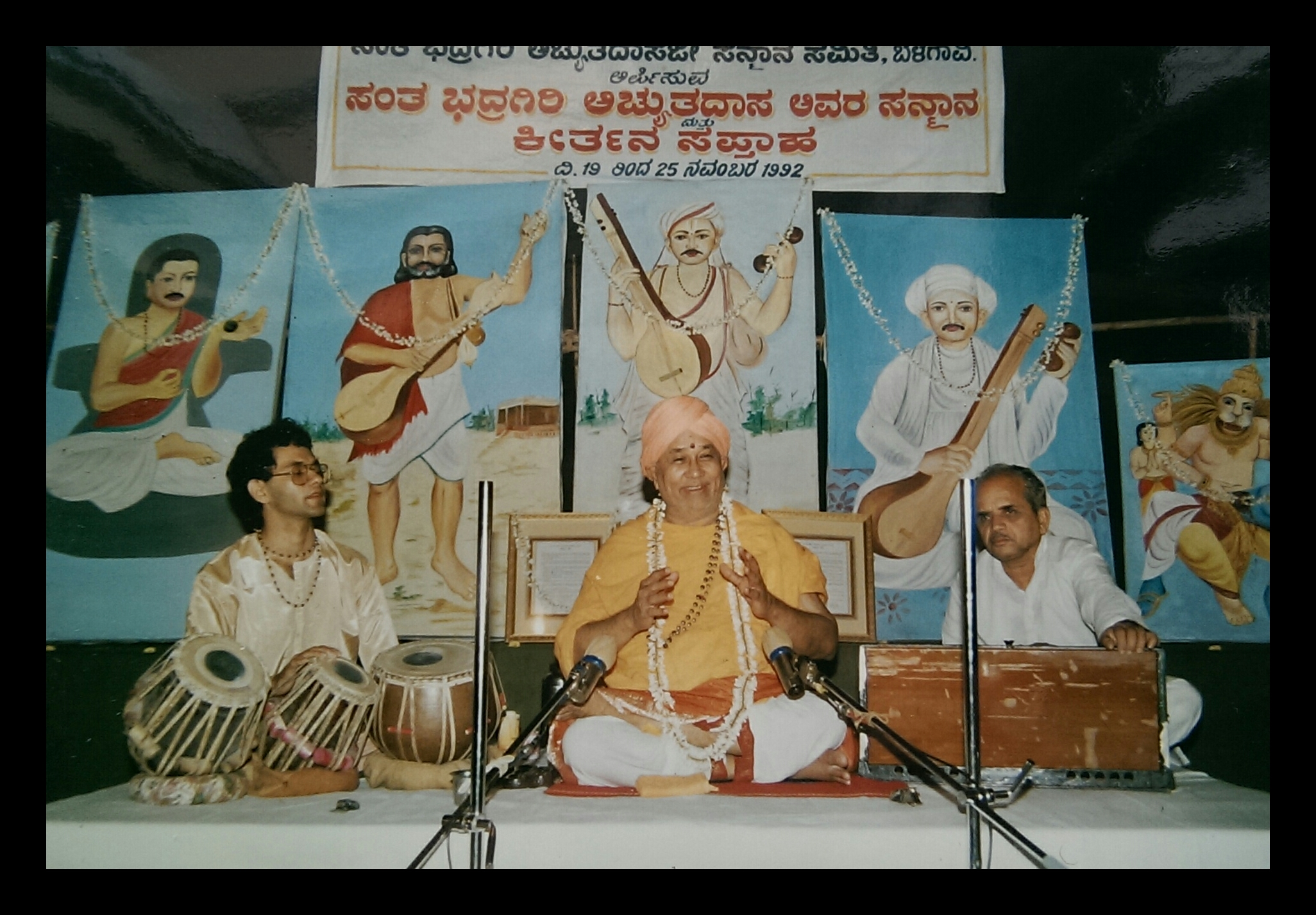 V.V.Shenoy organised the Keertana Kesari Bhadragiri Shri Achutdasa Swamiji at the Keertana Saptaha in 1992.